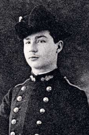 Eugène Raguin (1900-2001), French Geologist